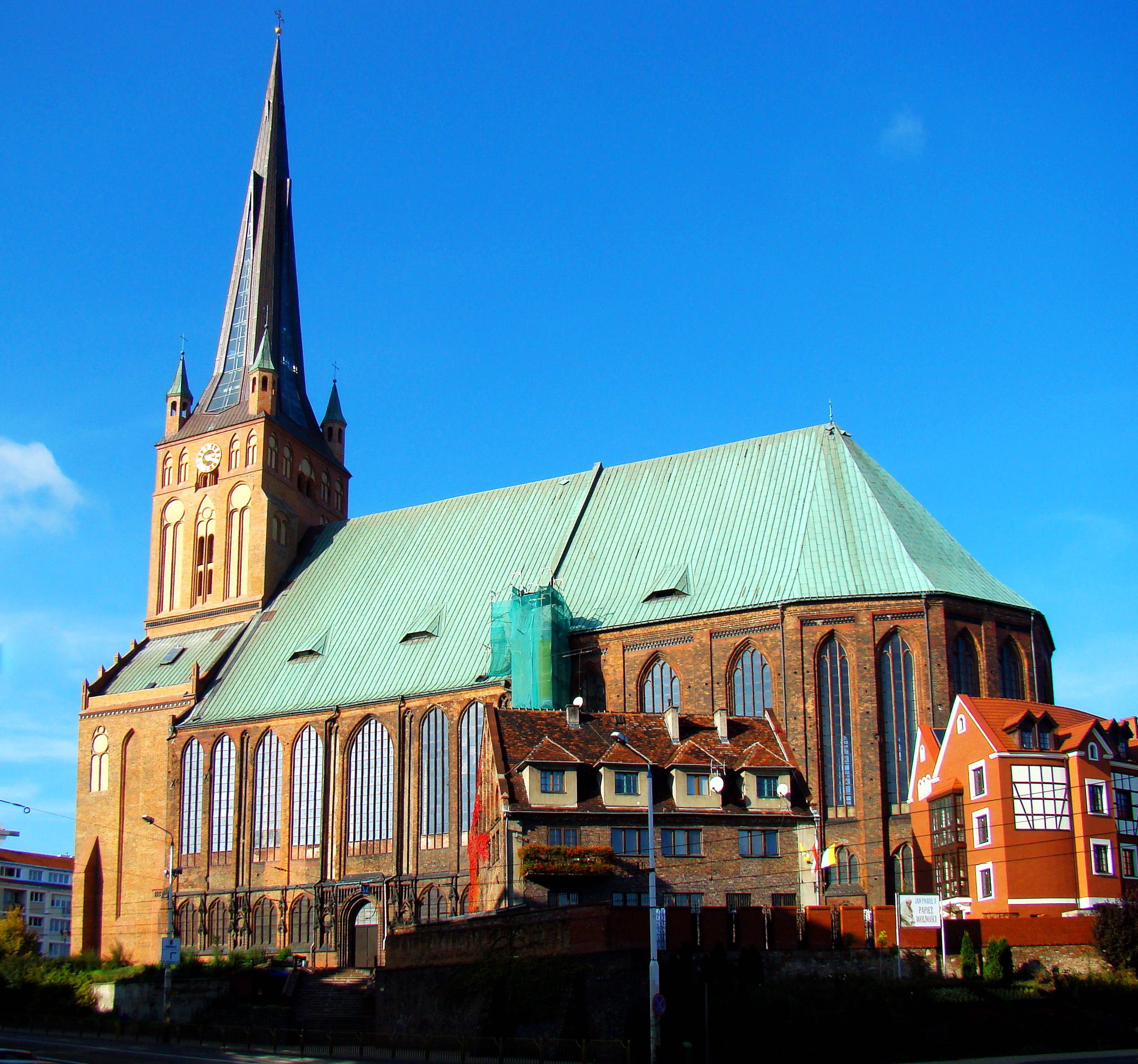 Cathedral Basilica of St. James the Apostle, Szczecin, Poland